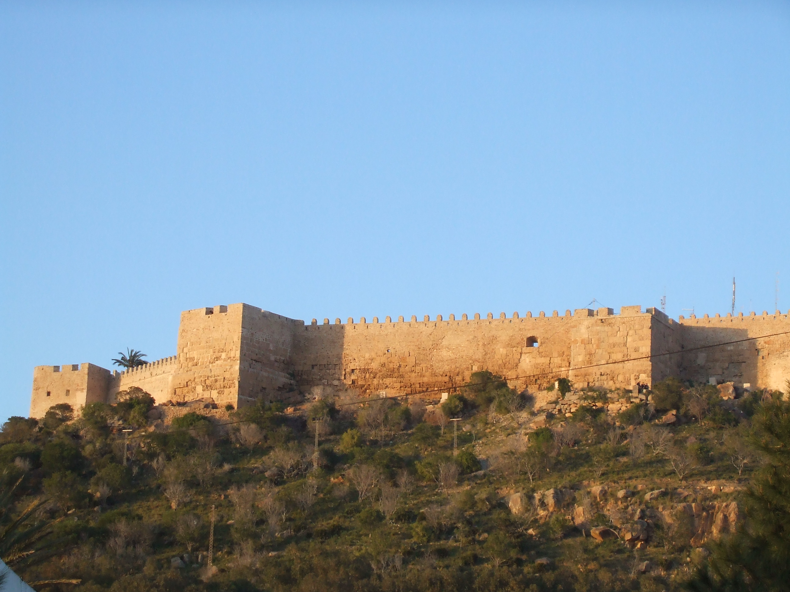 قليبية (Kélibia) Castle - panoramic view